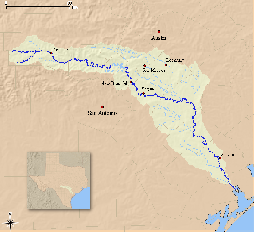 This is a map of the Guadalupe River watershed. I, Kuru, created from data originating at the USGS.